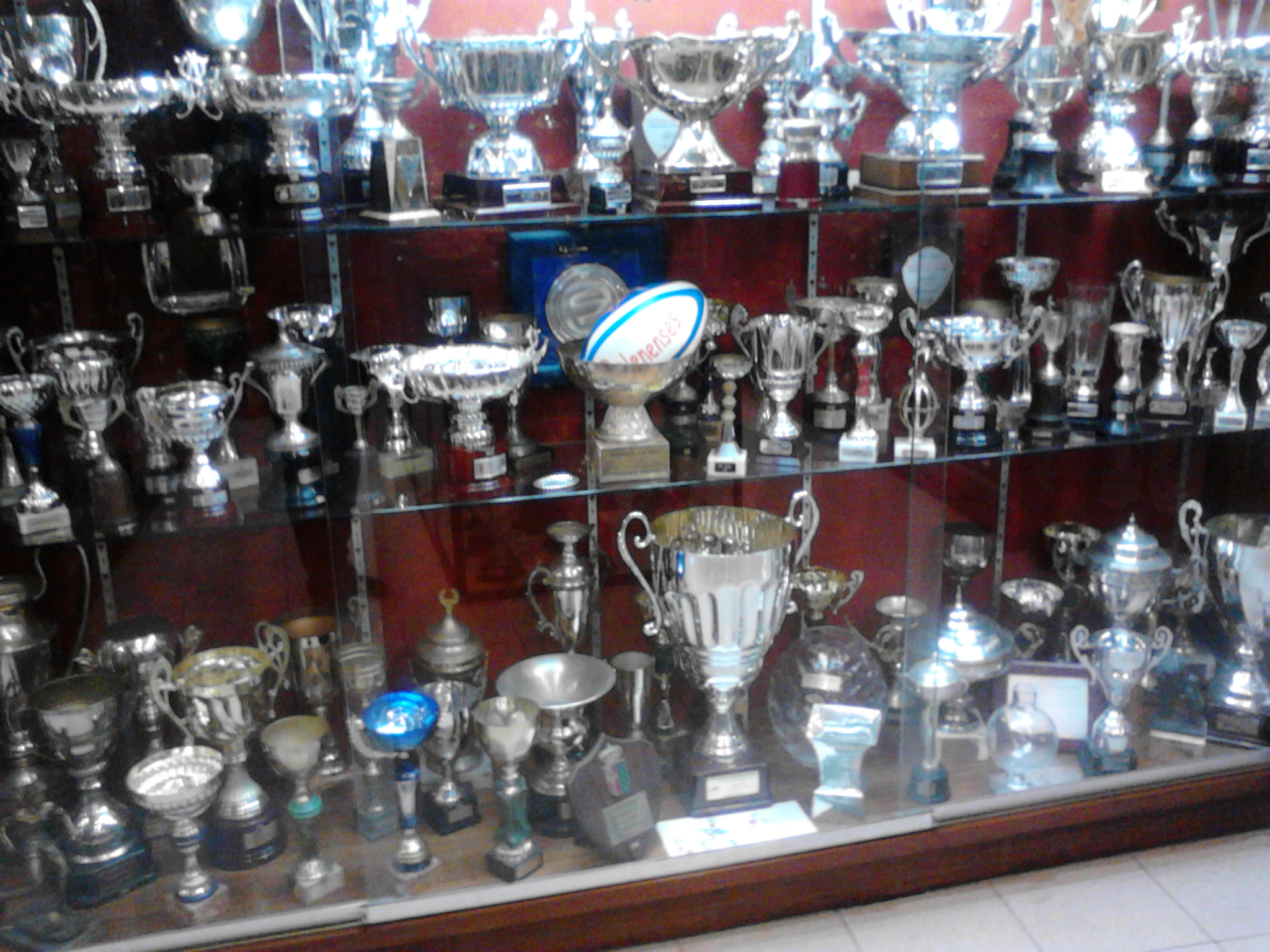 Several rugby related trophies. Belenenses has won 7 national championships (1955/56, 1957/58, 1962/63, 1972/73, 1974/75, 2002/03, 2007/08), which are probably the ones on the top